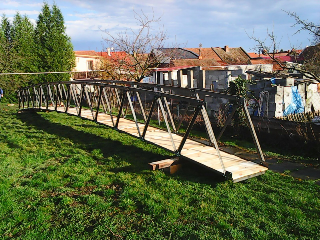 The bridge, which will be transferred to the village Curraj Eperm, prepared in Sokolnice (Czech Republic).